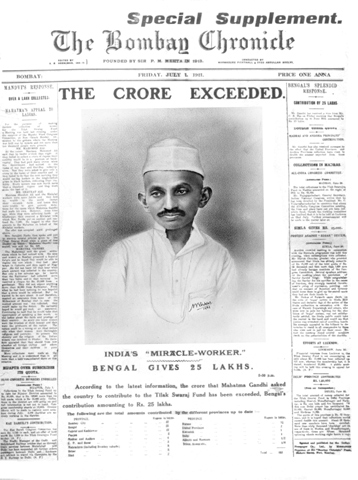 Newspaper featuring M. K. Gandhi, Bombay Chronicle.